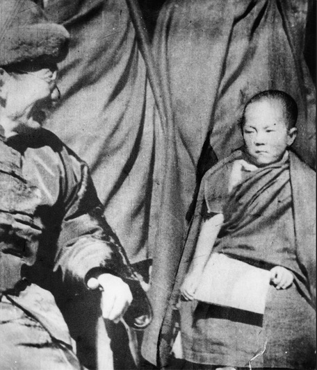 A former ROC officer, Wu Zhongxin, comes to see Tenzin Gyatso, 14th Dalai Lama (January 31, 1940).